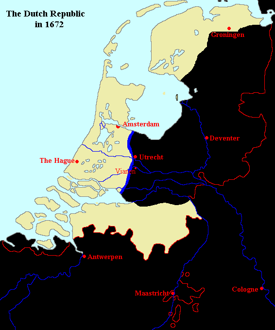 Dutch posistion in the Summer of 1672